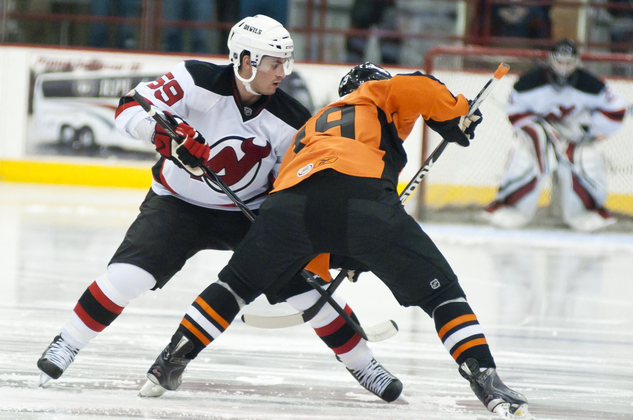 Adam Henrique; October 2nd, 10 - Albany Devils vs. Adirondack Phantoms (PreSeason) - Houston Field House